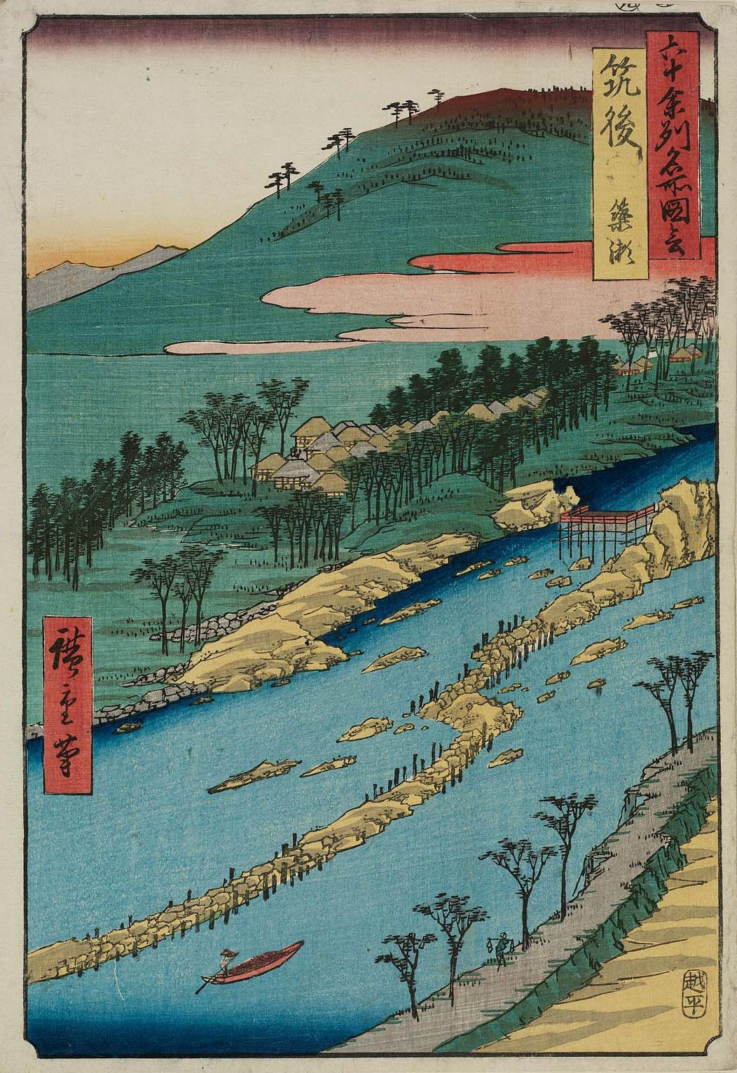 Part of the series Famous Places in the Sixty-odd Provinces, No. 60 (Saikaidō group)